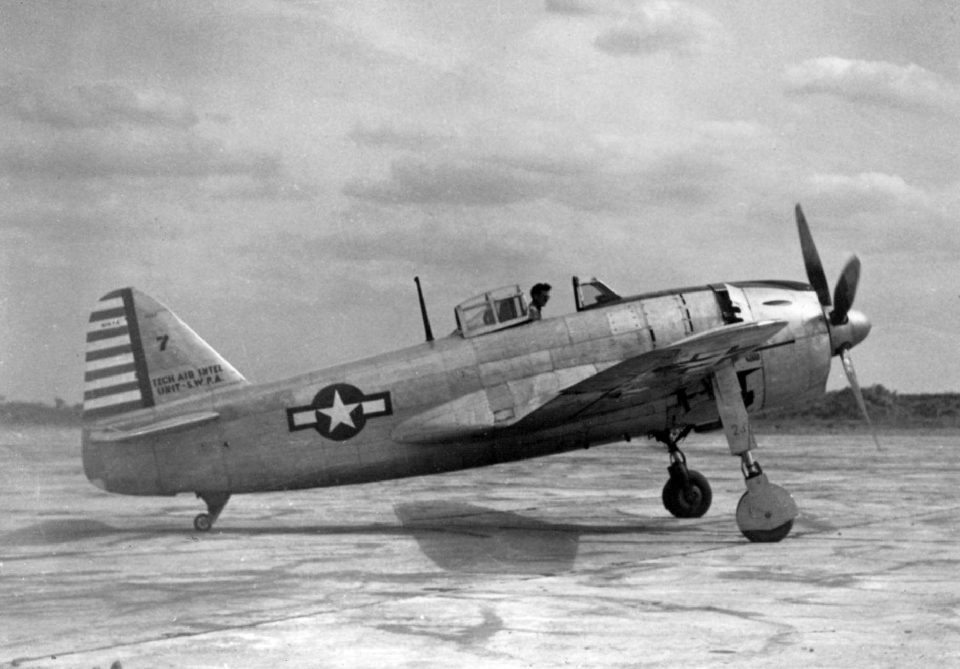 A Kawanishi N1K1-J "George" painted in the markings of the Army Air Forces Technical Air Intelligence Unit, Southwest Pacific Area pictured on the ground.